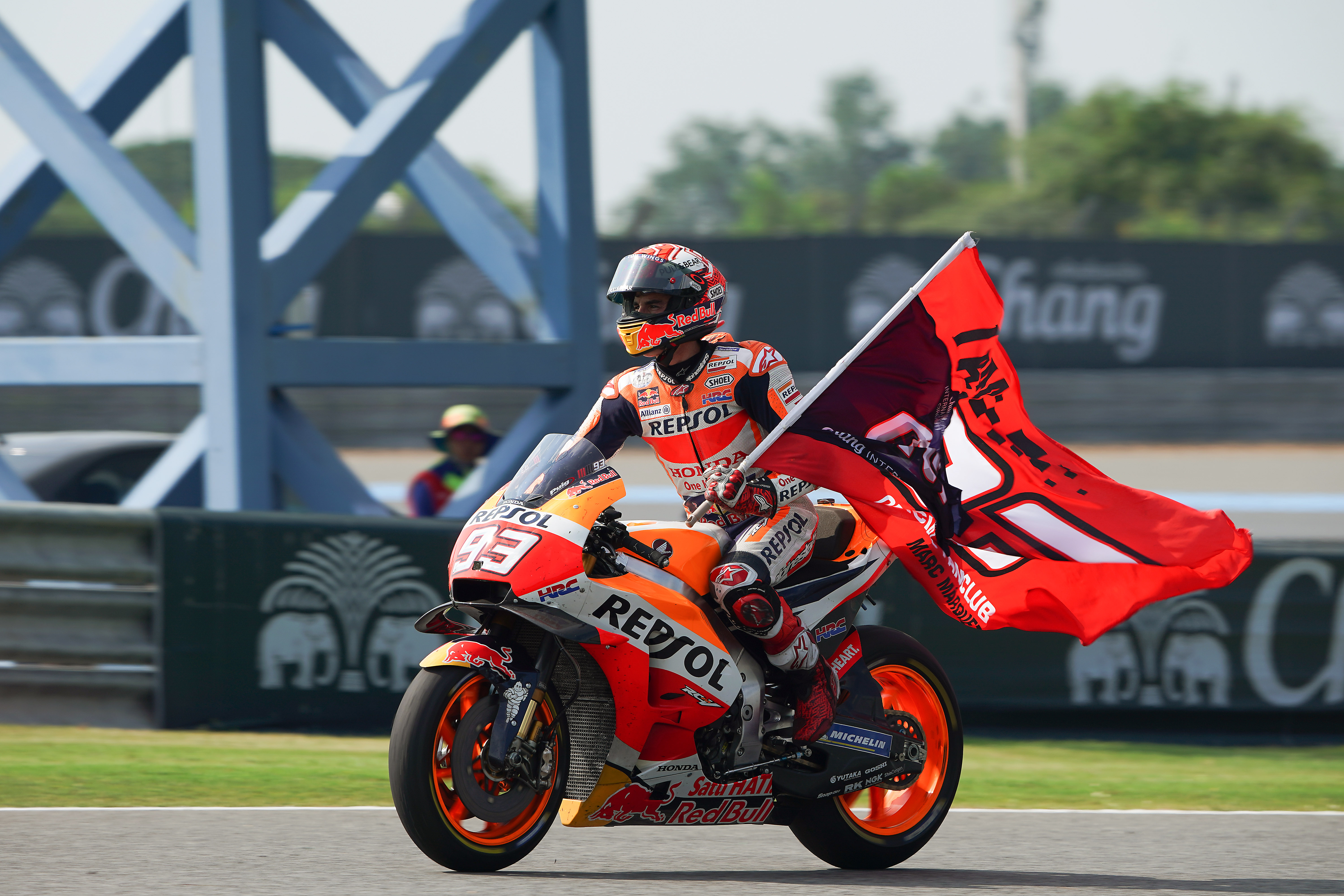 Marc Márquez, riding his Repsol Honda, celebrating with his flag after winning the 2018 Thai Grand Prix.